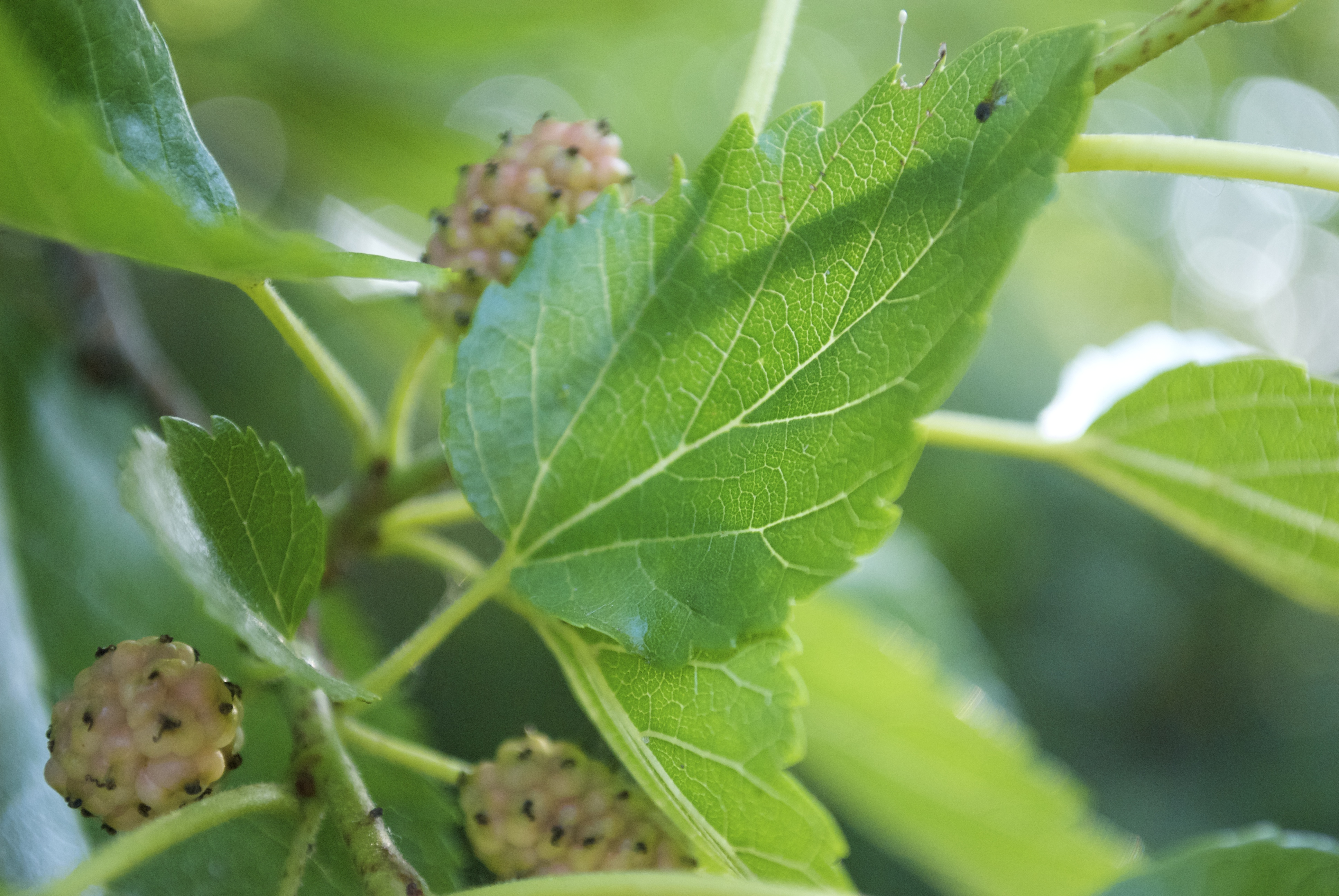 mulberry (morus rubra) Woodstock, IL